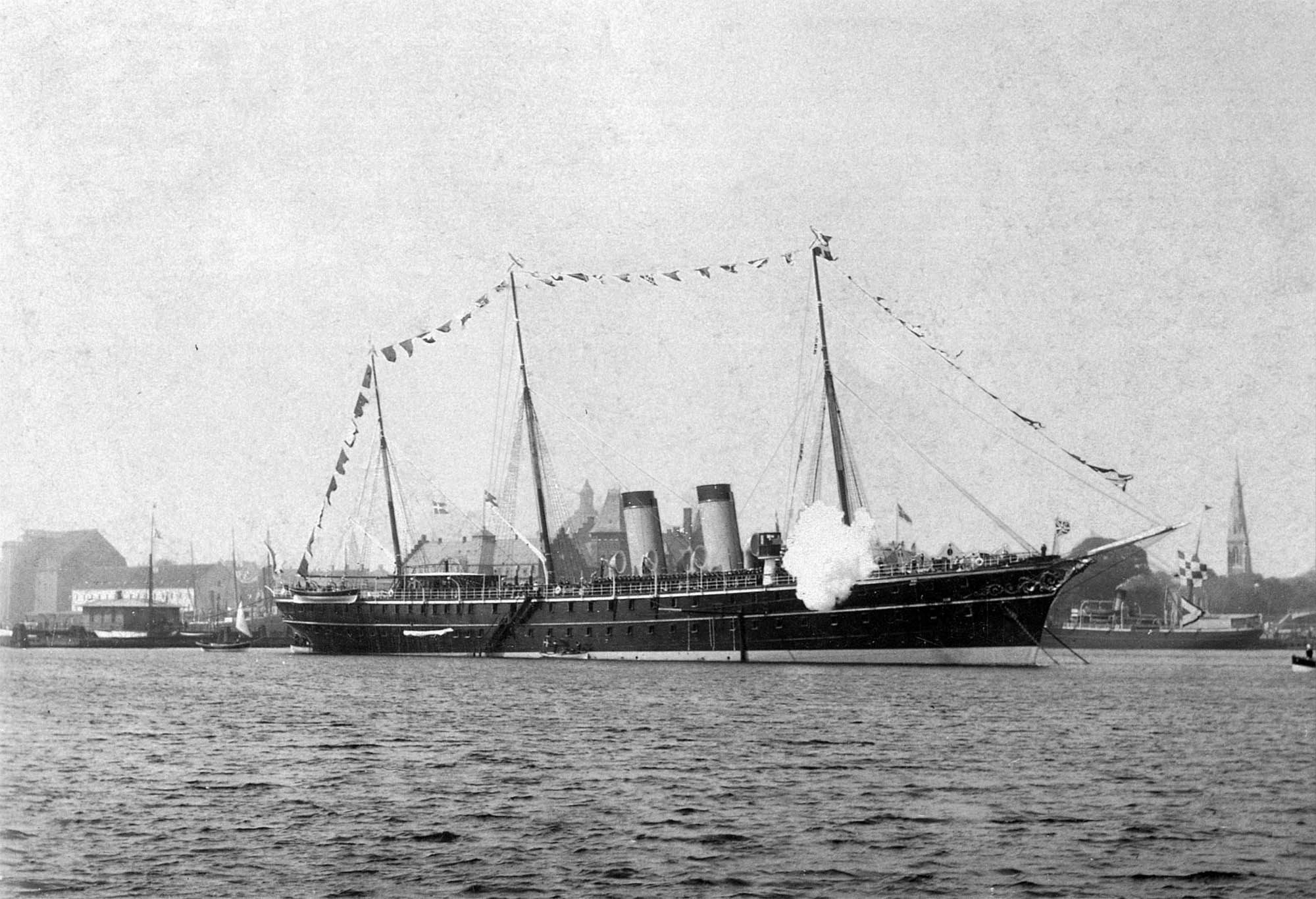 Imperial Russian yacht Polyarnaya Zvezda in Copenhagen.